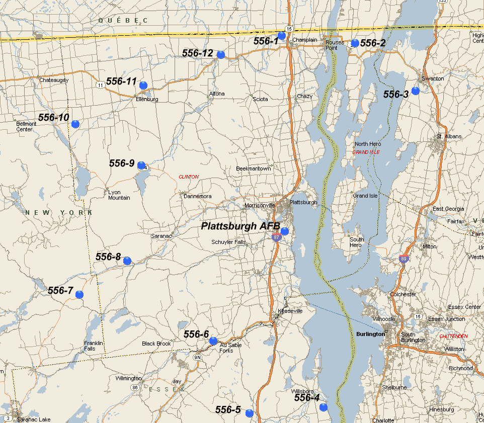 556th Strategic Missile Squadron - SM-65F Atlas Missile Sites